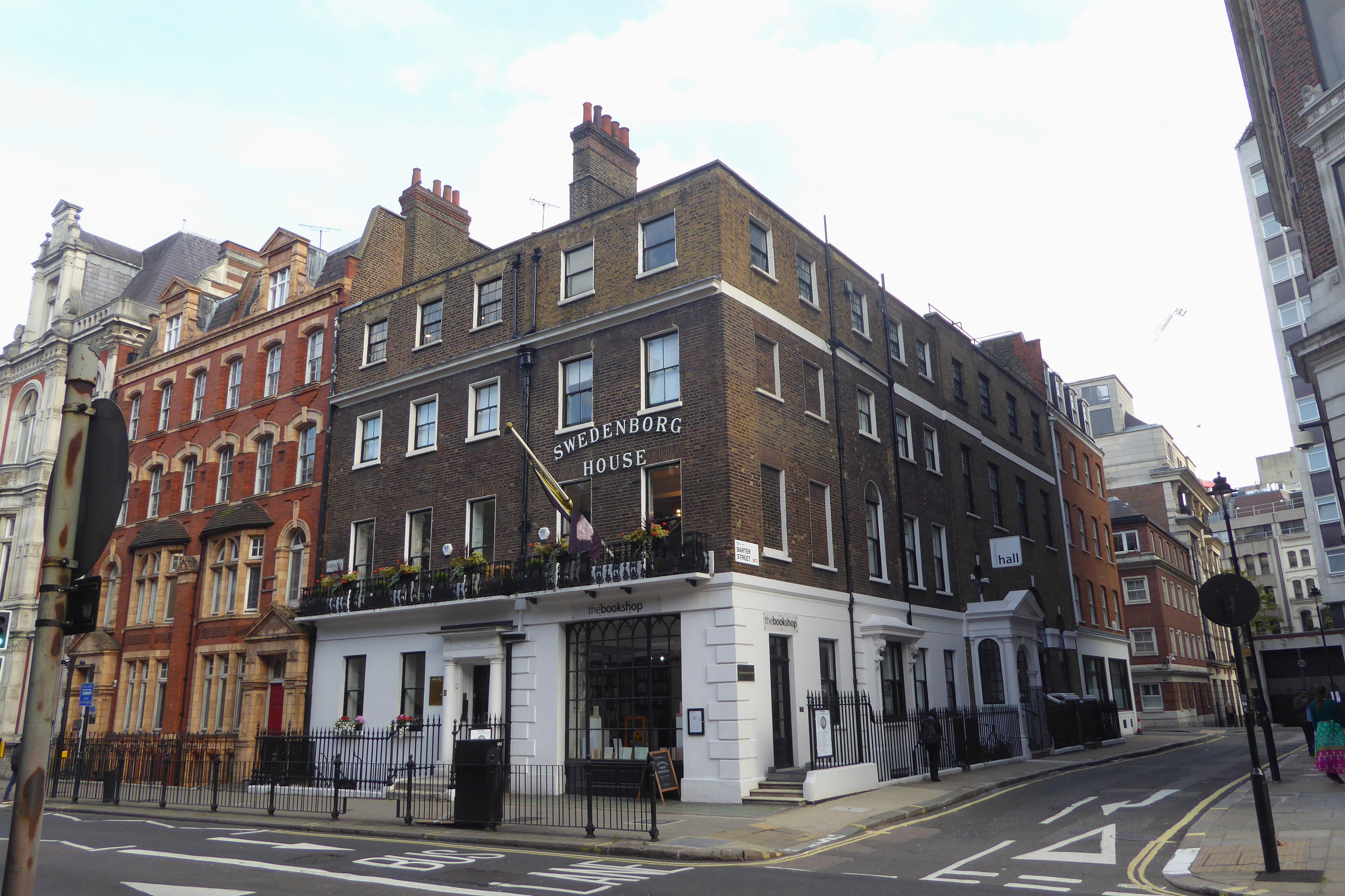 Swedenborg House in central London as seen from the northwest.